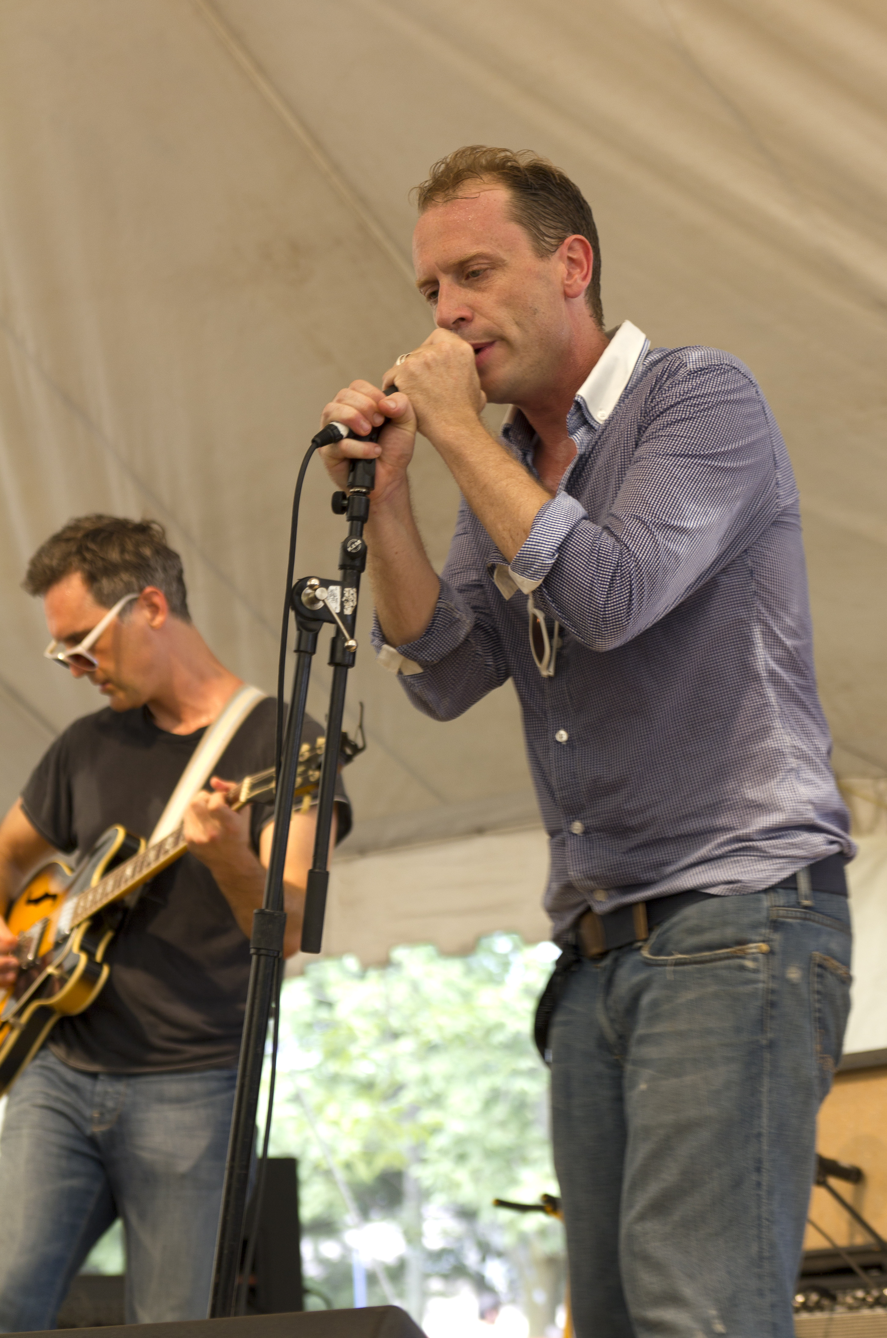 Memphis performing at the 2011 Hillside Festival